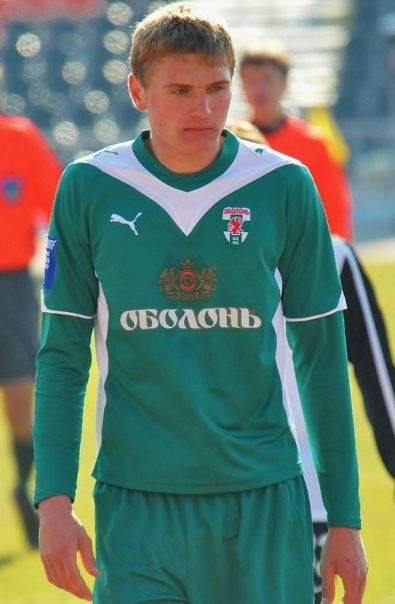 Ihor Plastun